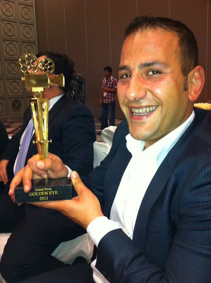 Roman Musheghyan on international film festival Golden Eye